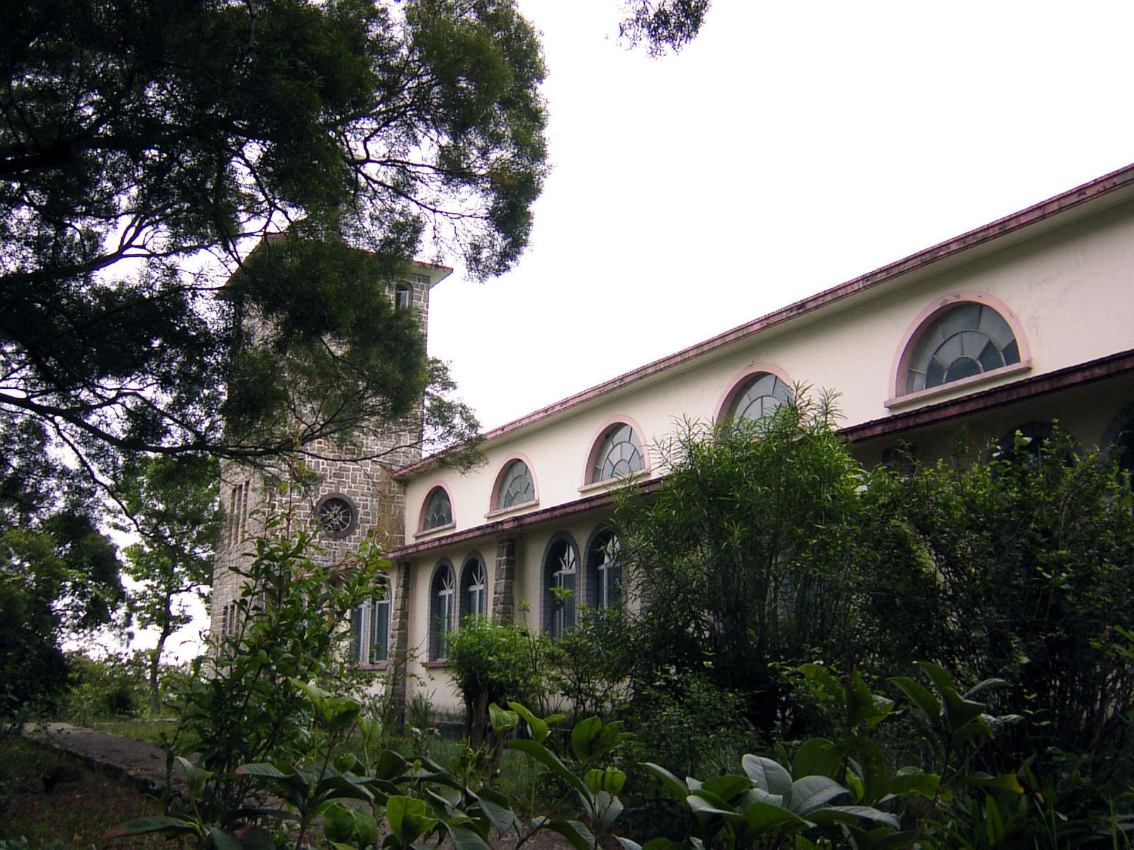 Our Lady of Joy Abbey taken by Mintchocicecream on 20040409